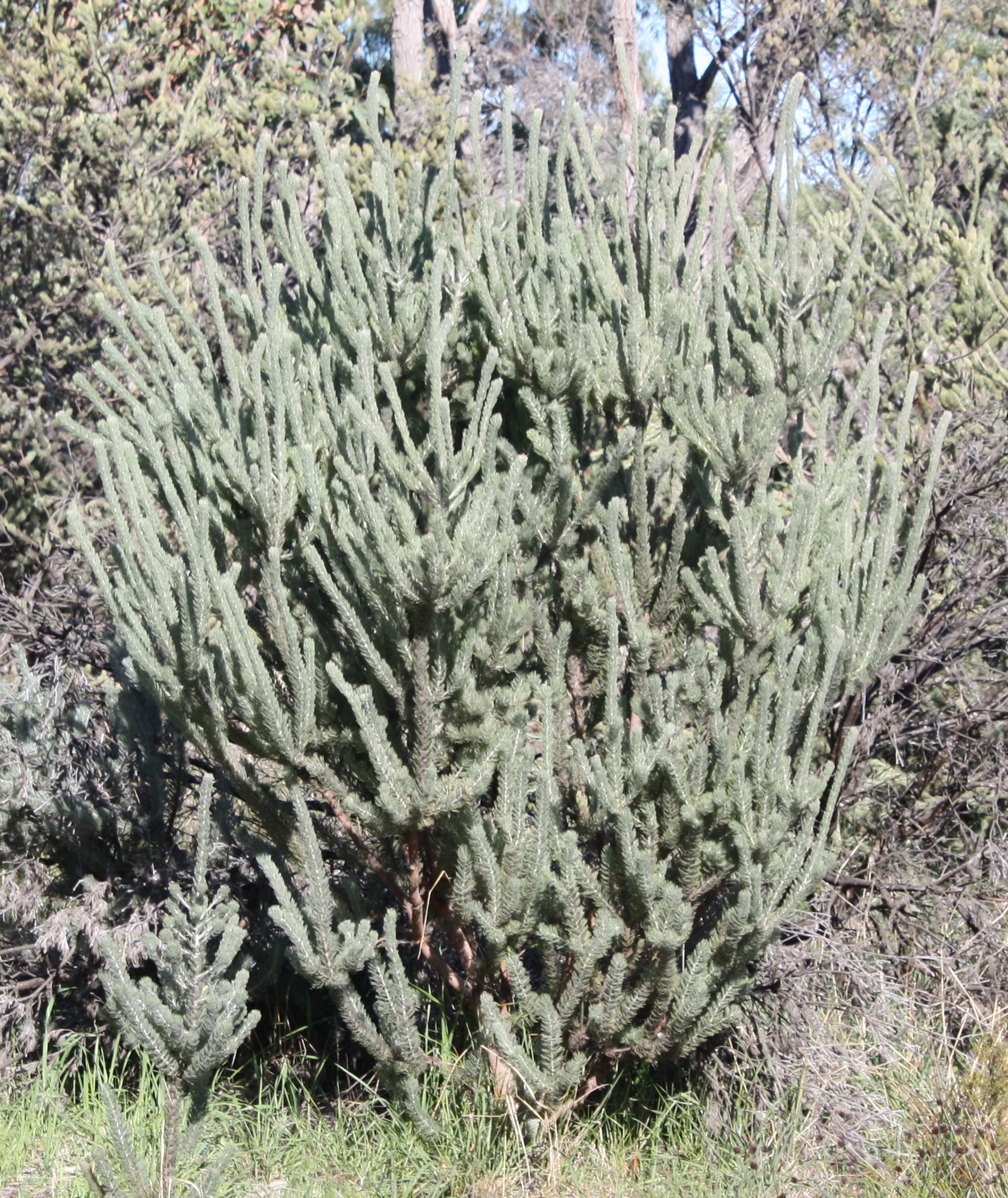 Adenanthos cygnorum. Photo taken at Wireless Hill Park, Perth, Western Australia